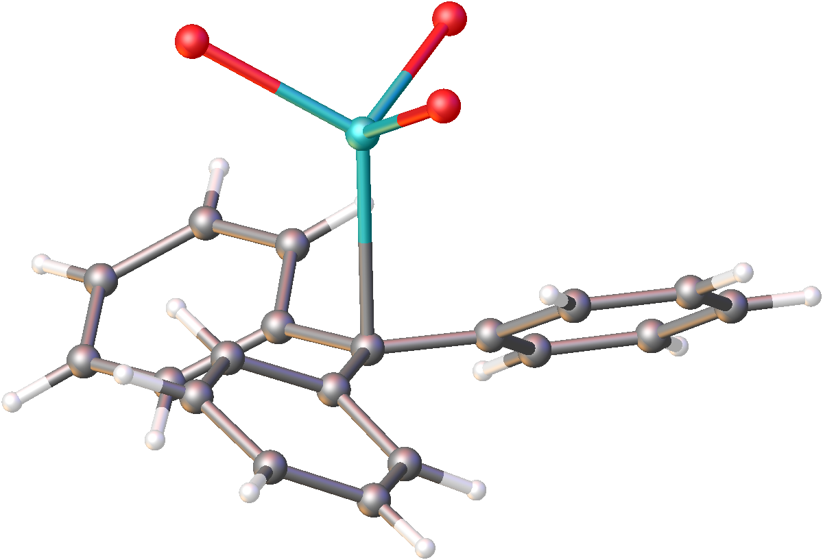 structure of (C6H5)3CNa(thf)3, omitting all but the oxygen of the thf ligands.